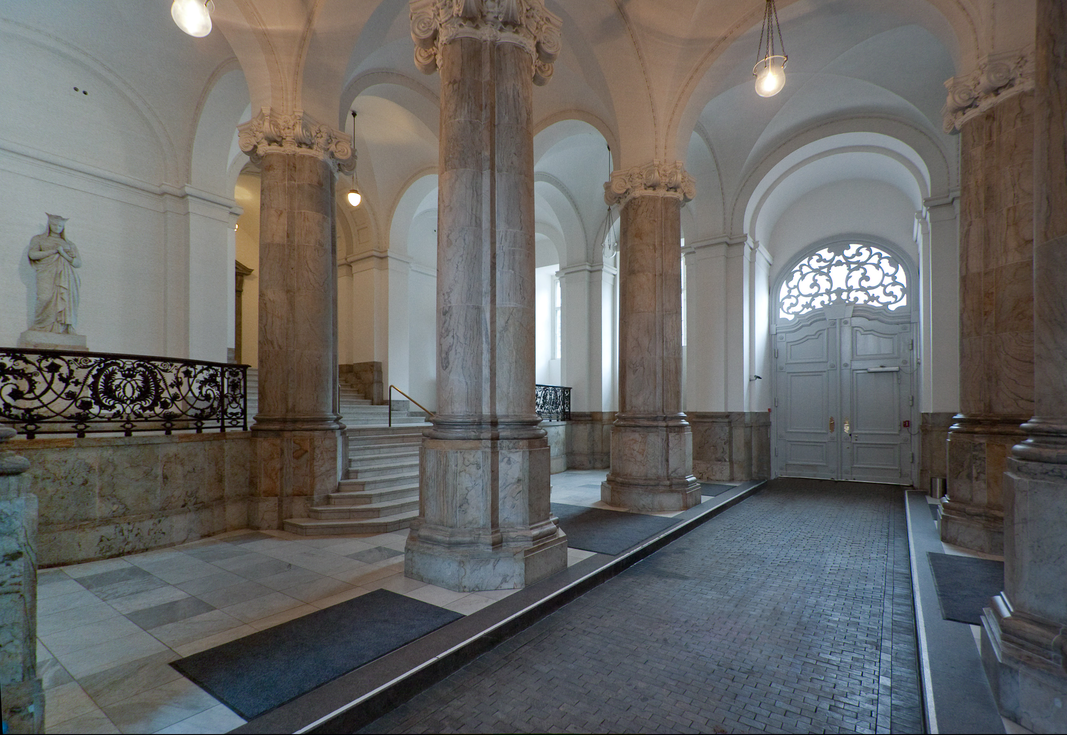 Christiansborg Palace, Copenhagen: Interior of the Queen's Gate with the entrance to the Royal Reception Rooms to the left.